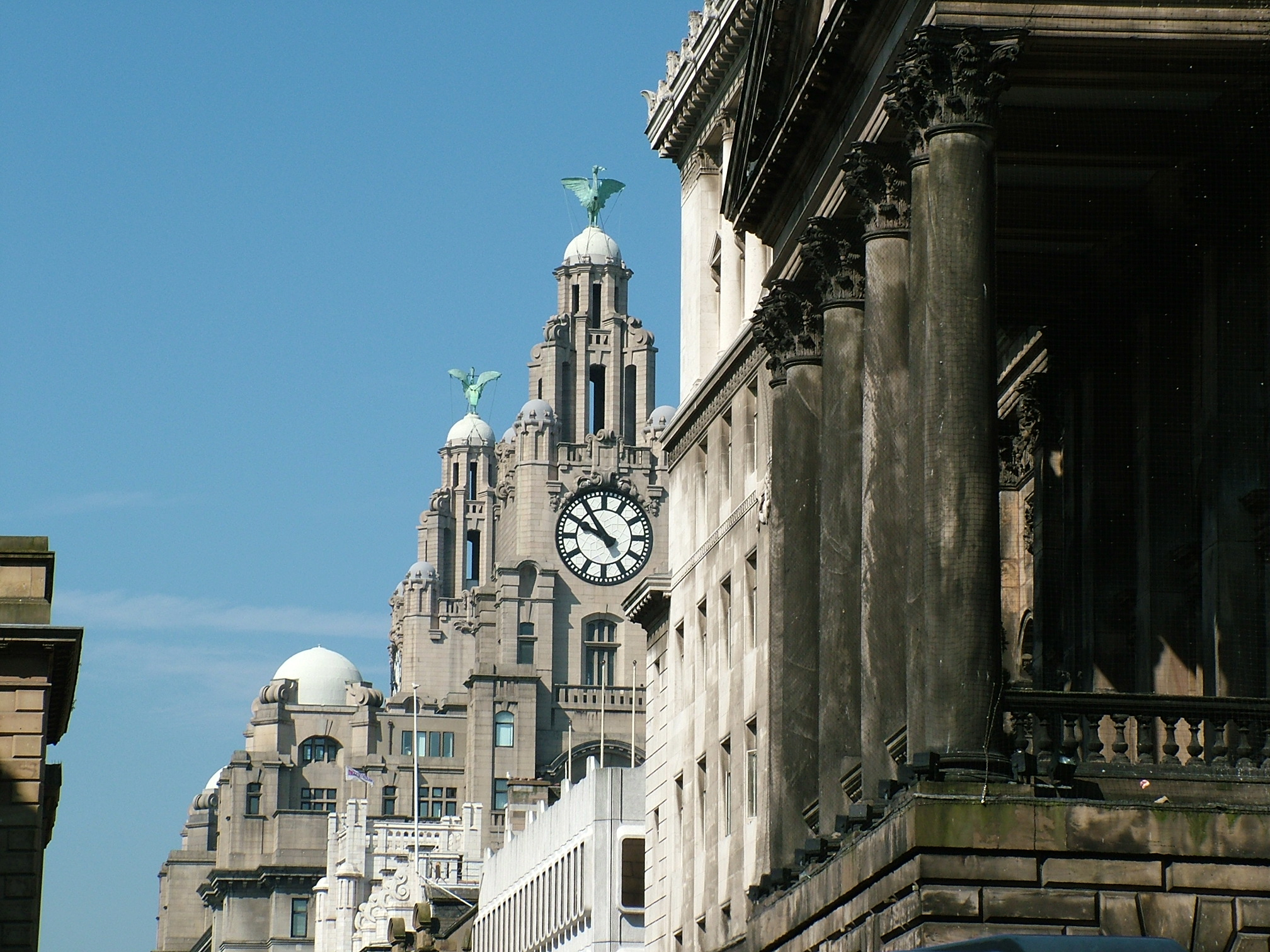 Royal Liver Building above Dale Street - Liverpool - 2005-06-27.jpg By & copyright Tagishsimon, 27th June 2005